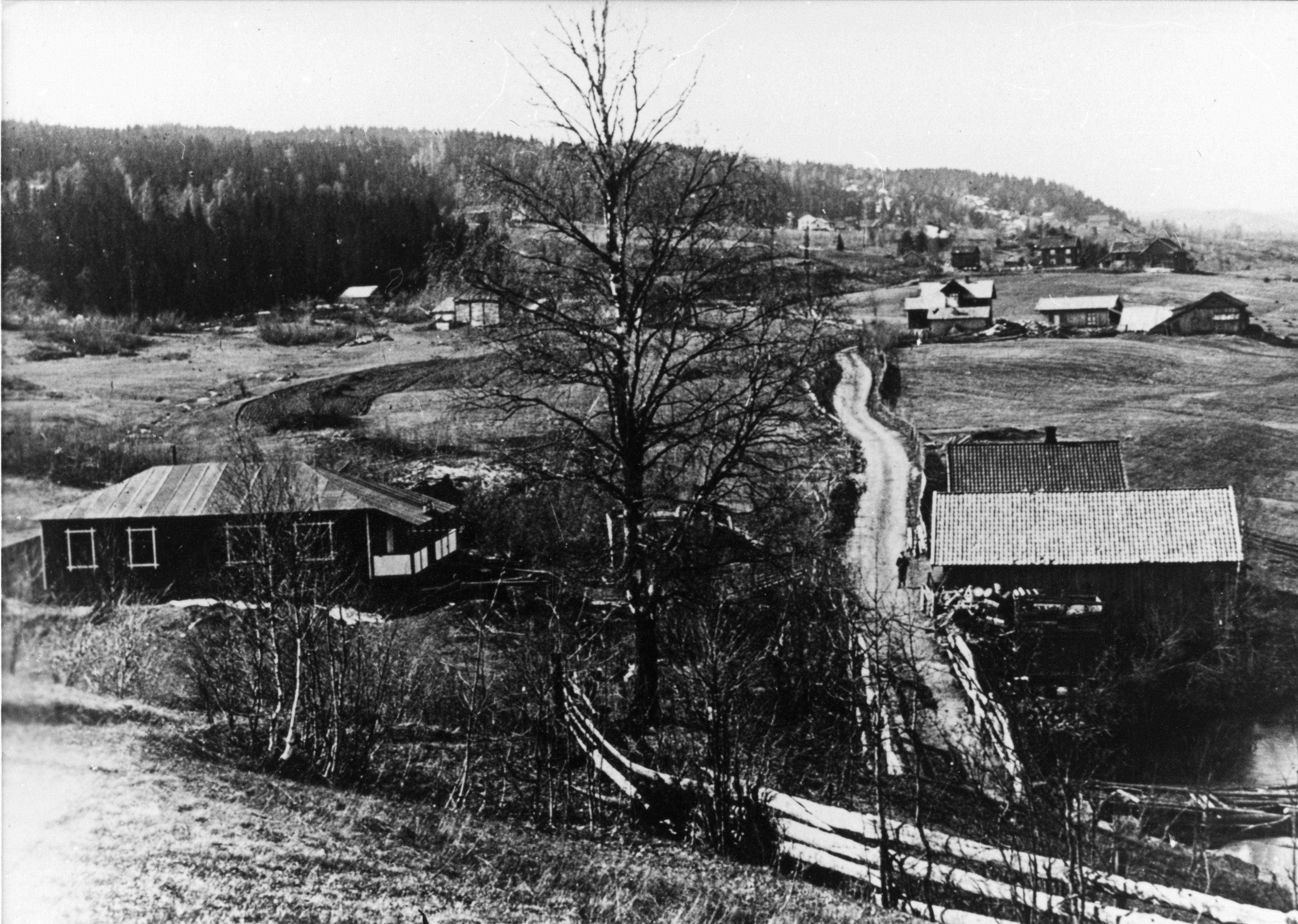 Hillestad ved Heistadmoen i Kongsberg, 1912. Brua over Dalselven i forgrunnen.